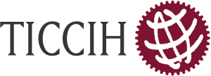 The International Committee for the Conservation of the Industrial Heritage logo